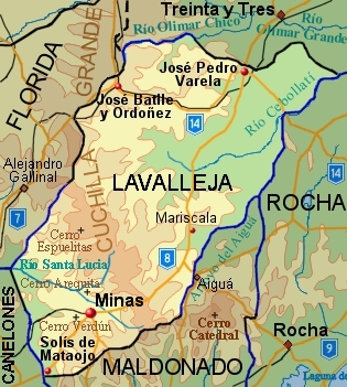 Map of Lavalleja Department, Uruguay.